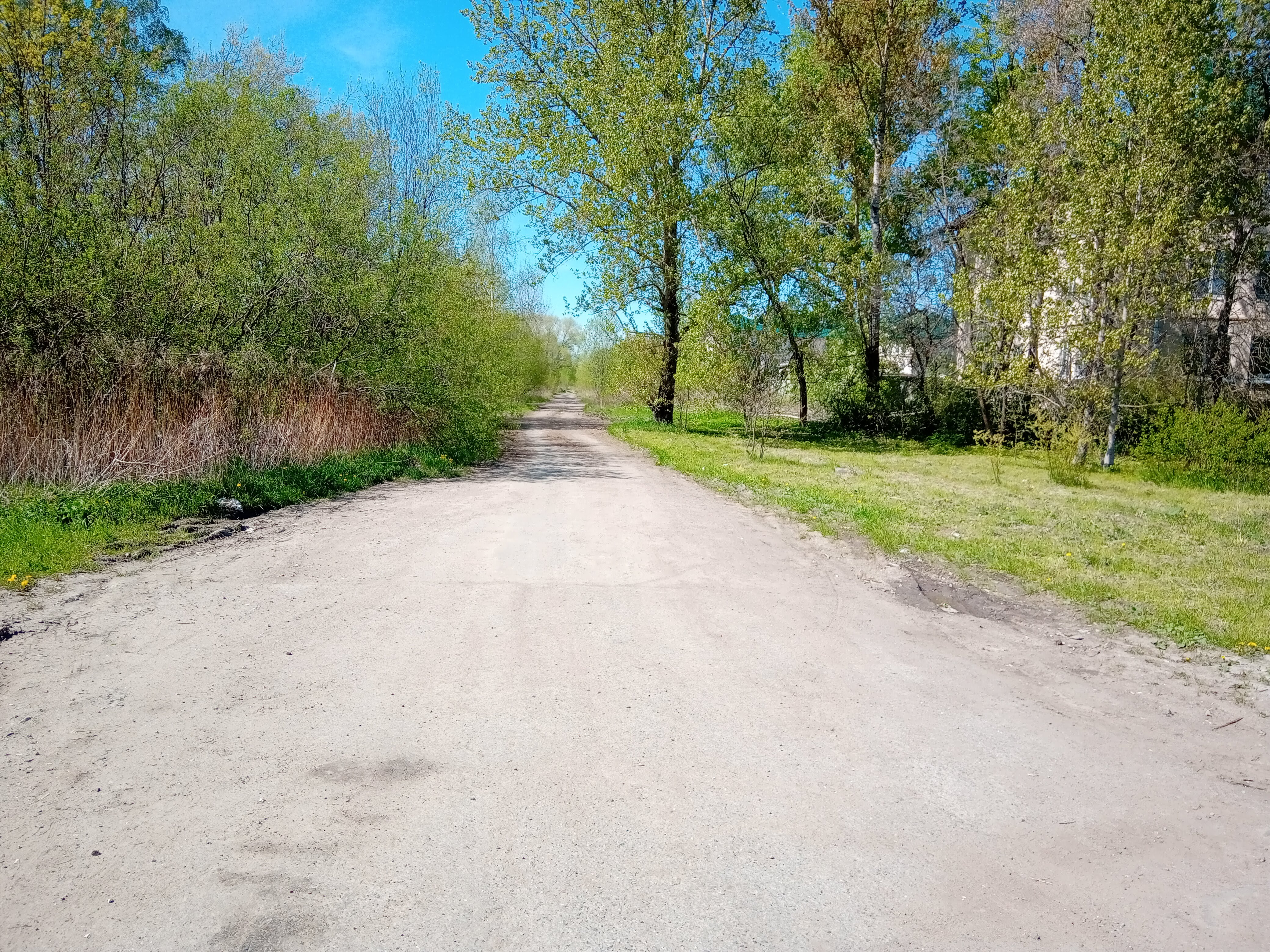 Volkhonskoje shosse between Strelna and Petergof